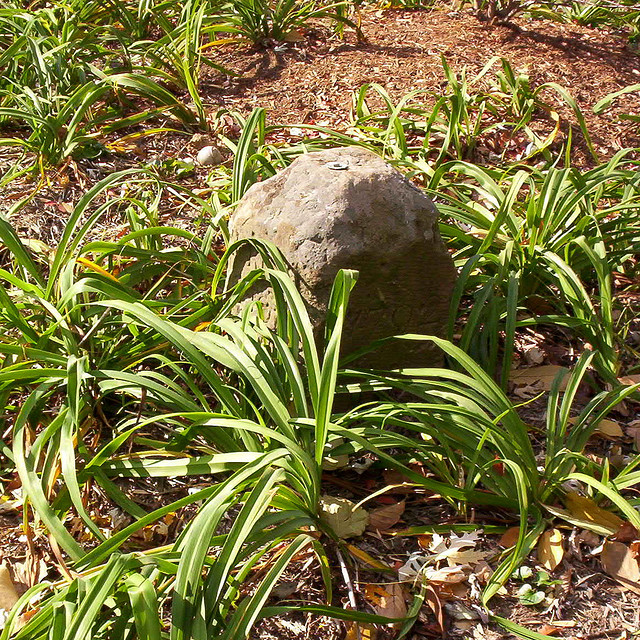 Boundary Stone number 8 on the Northwest side of the District of Columbia. Marks the border between DC and Maryland. On the NRHP. Taken by zhurnaly - not by me. Medium size photo at Set of 27 (of the 40 boundary stones) all marked CC-by-2.0, all are on the NRHP. Stones were set in a 1791 survey and are called the 1st monuments of the US Federal Government.